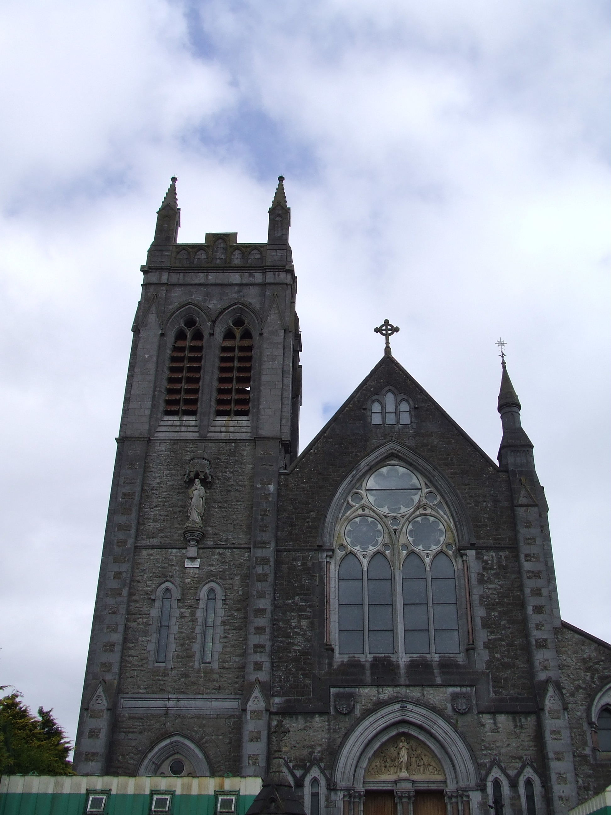 Front elevation of St Mary's Roman Catholic Church on Main Street in Carrick-on-Shannon, County Leitrim.